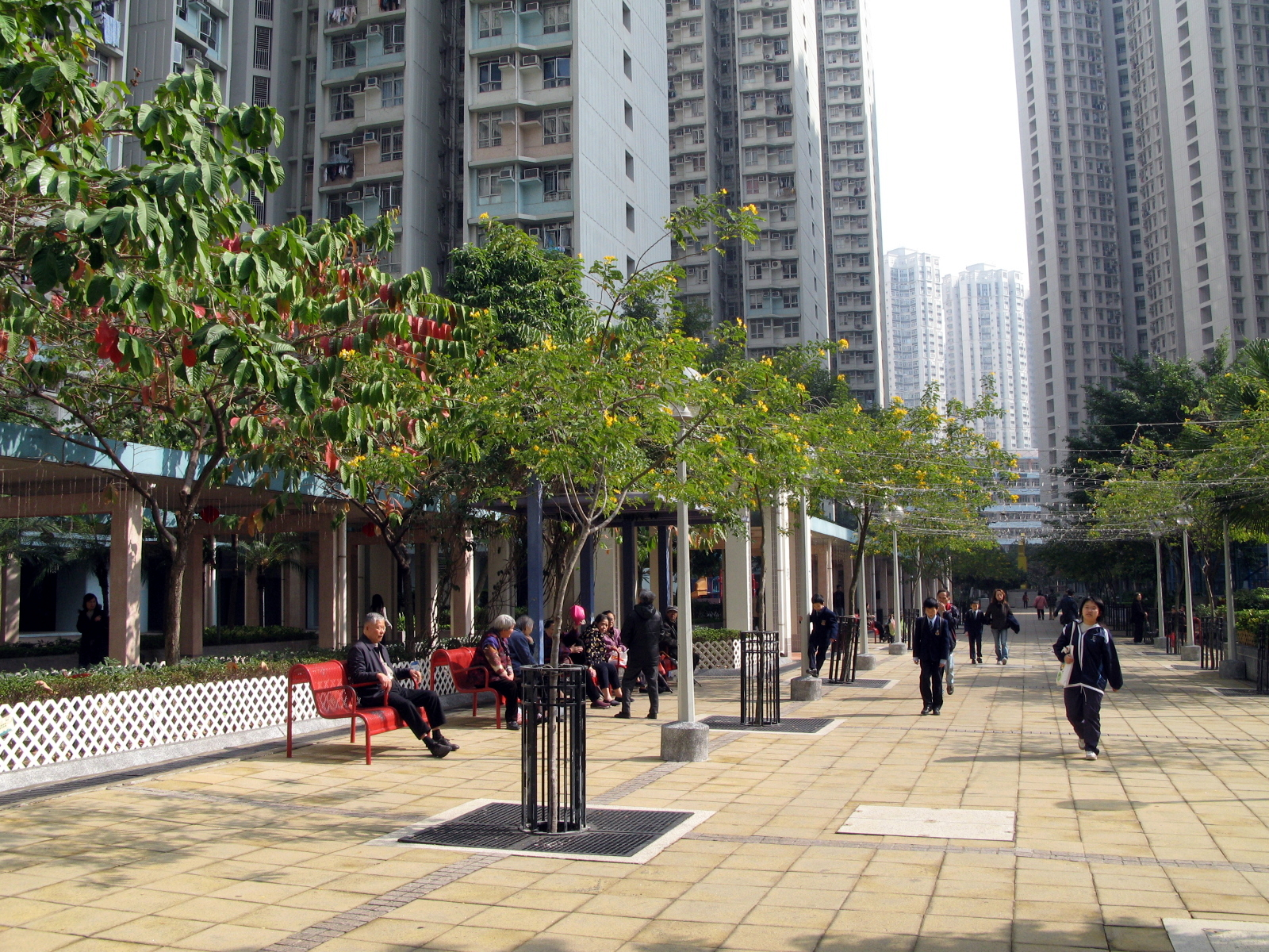 HK Tin Chung Court Entry Plaza